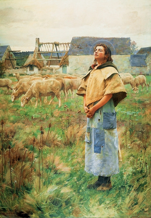 St Genevieve